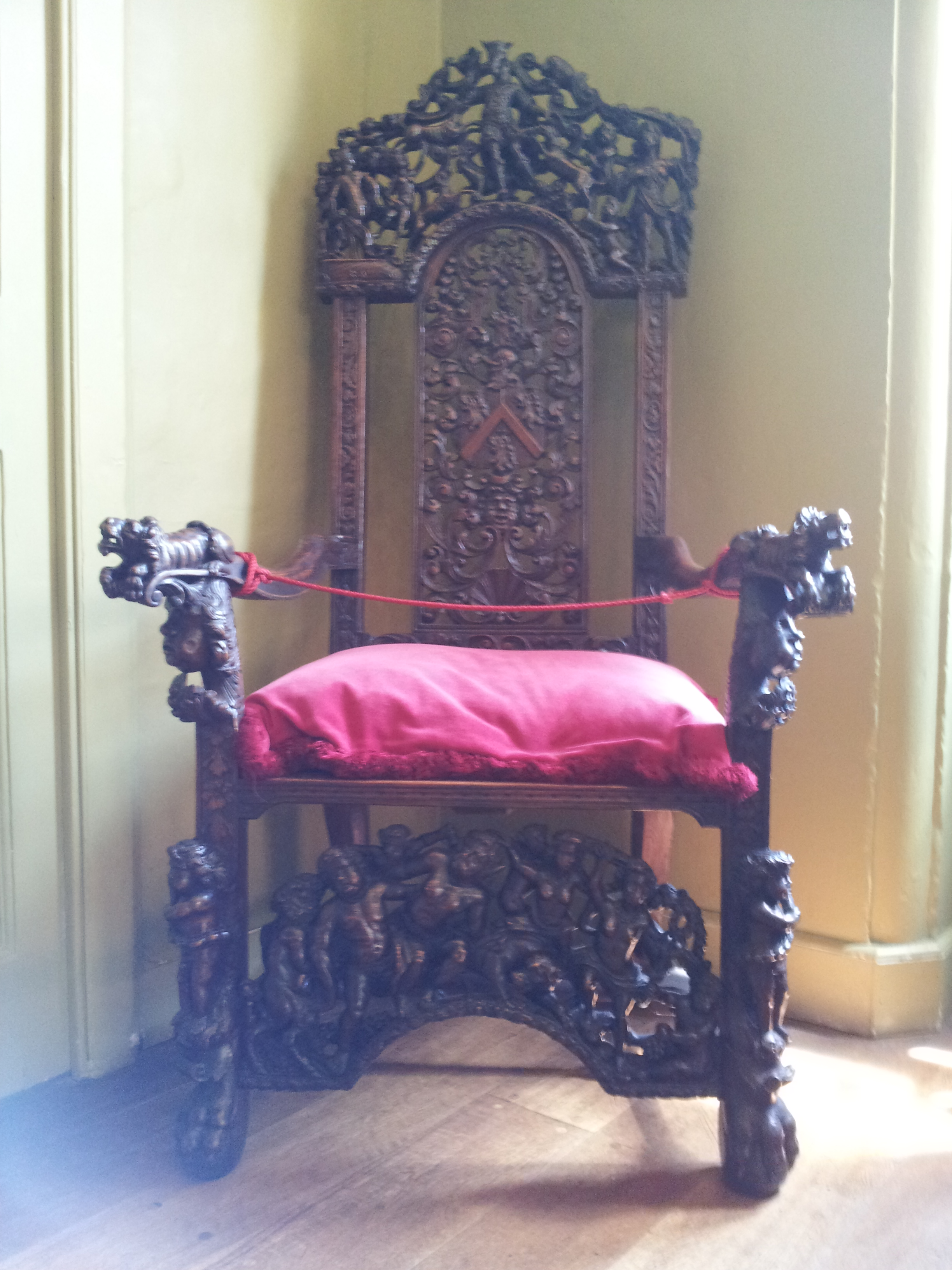 Tudro and Georgian furniture at the Red Lodge Museum in Bristol